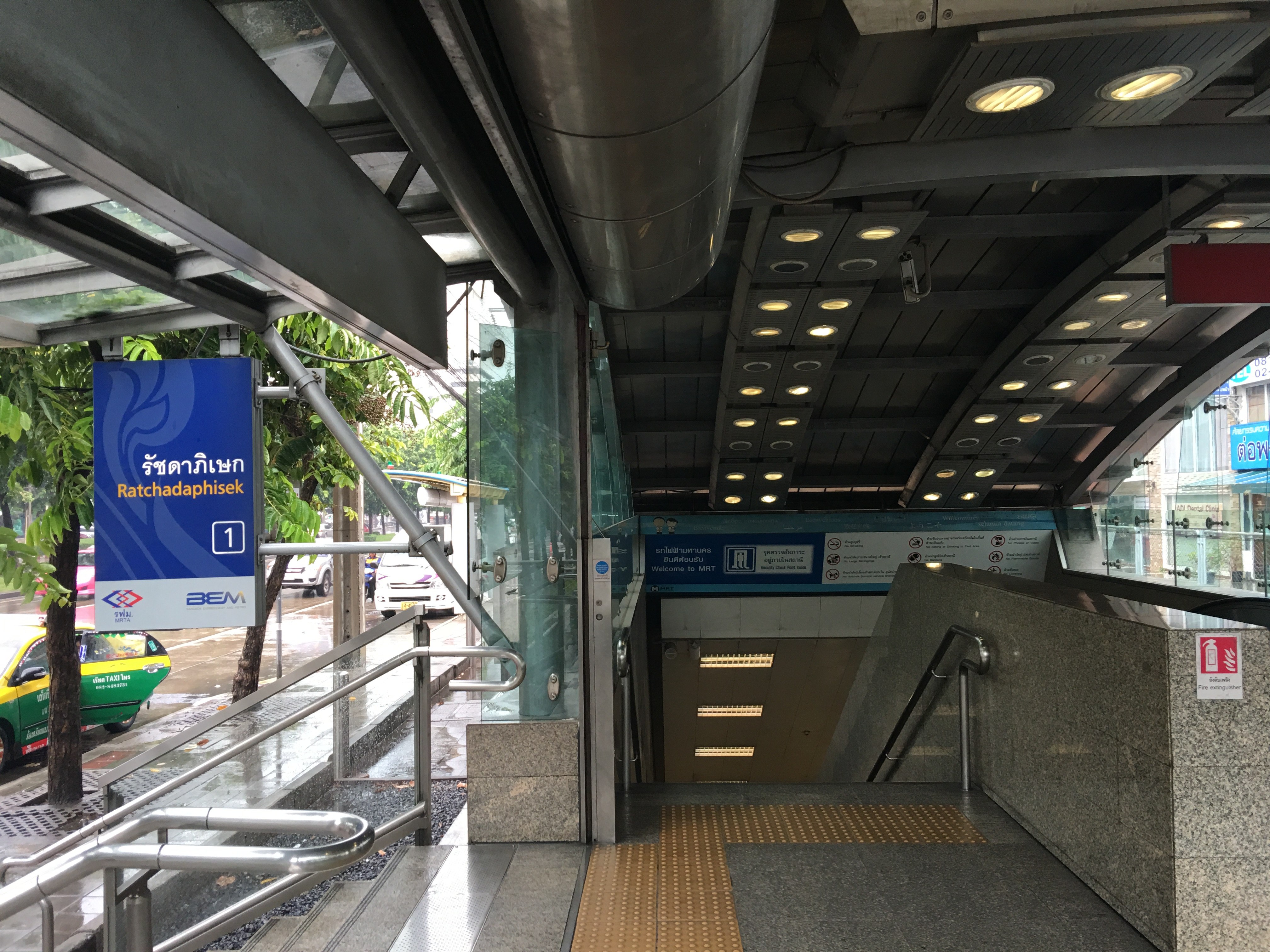 The entrance no.1 to Ratchadaphisek Station, near Chao Phraya Park Hotel and Panjasap School